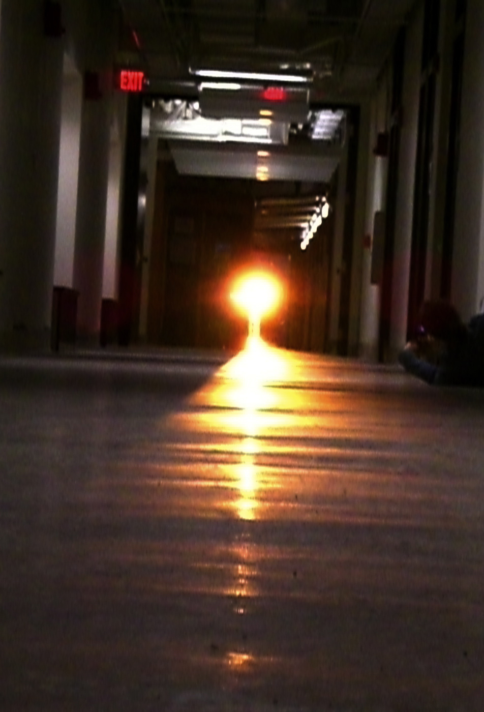 The sun shining all the way down MIT's Infinte Corridor